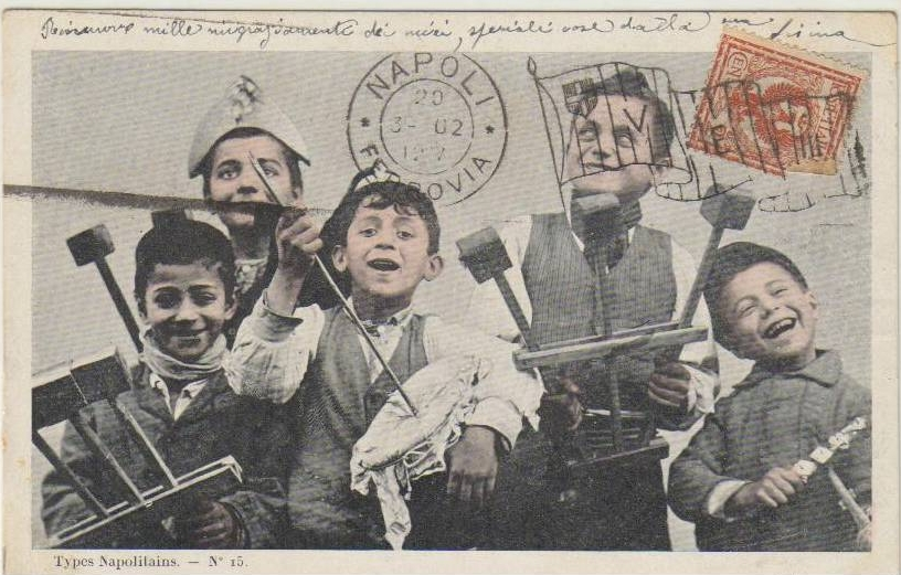 Five boys of Naples playing triccheballacche, 1902